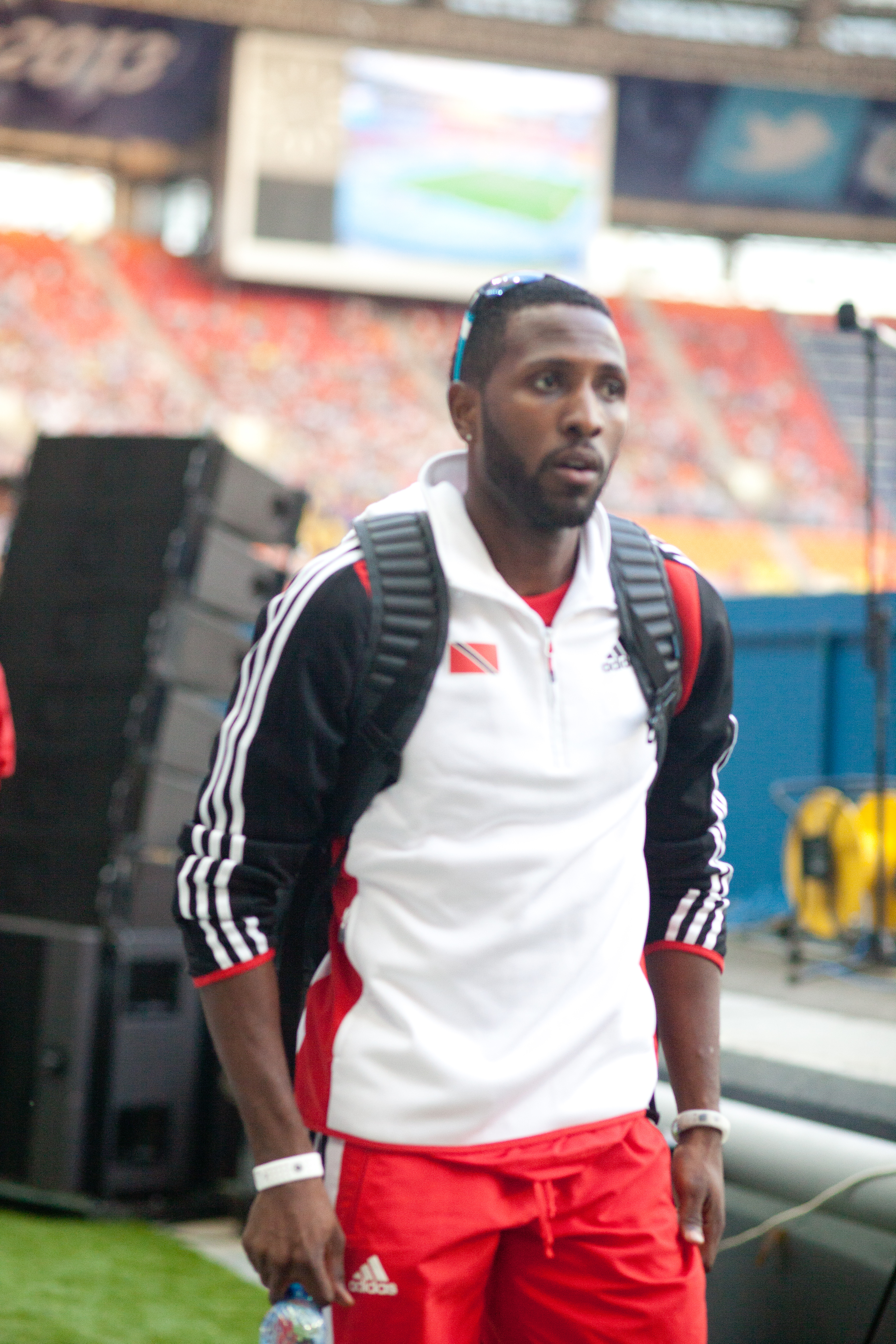 Richard Thompson during 2013 World Championships in Athletics in Moscow.